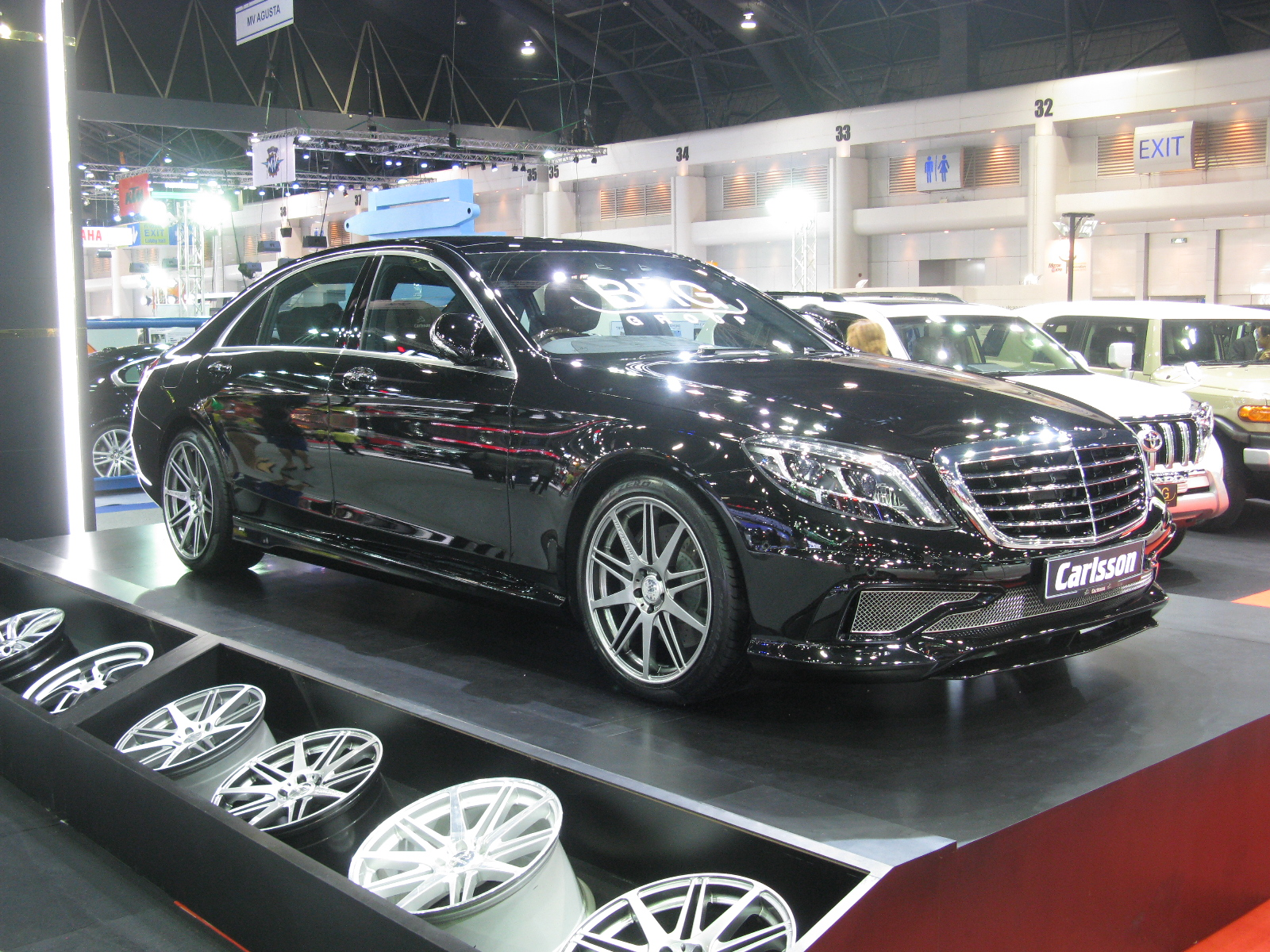 Mercedes-Benz S Class W222 Carlsson